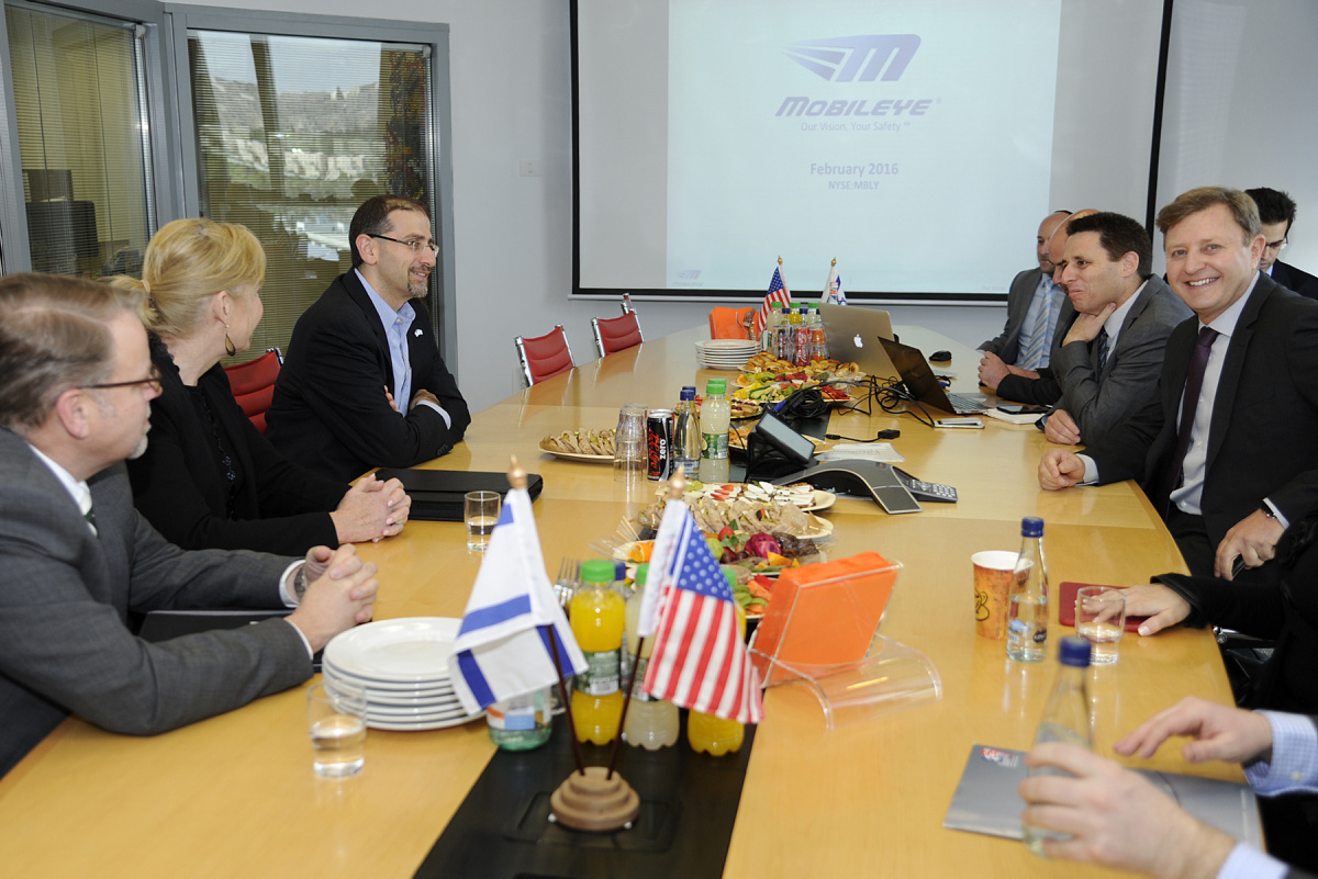 Ambassador's visit to Mobileye